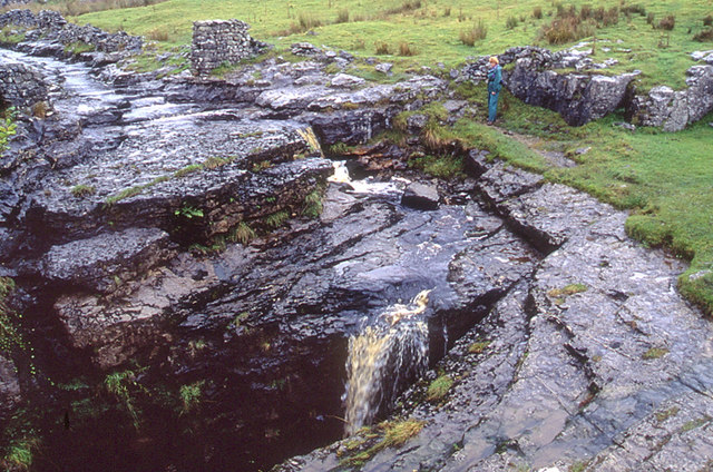 Calf Hole above High Birkwith A rainy day along the Pennine Way